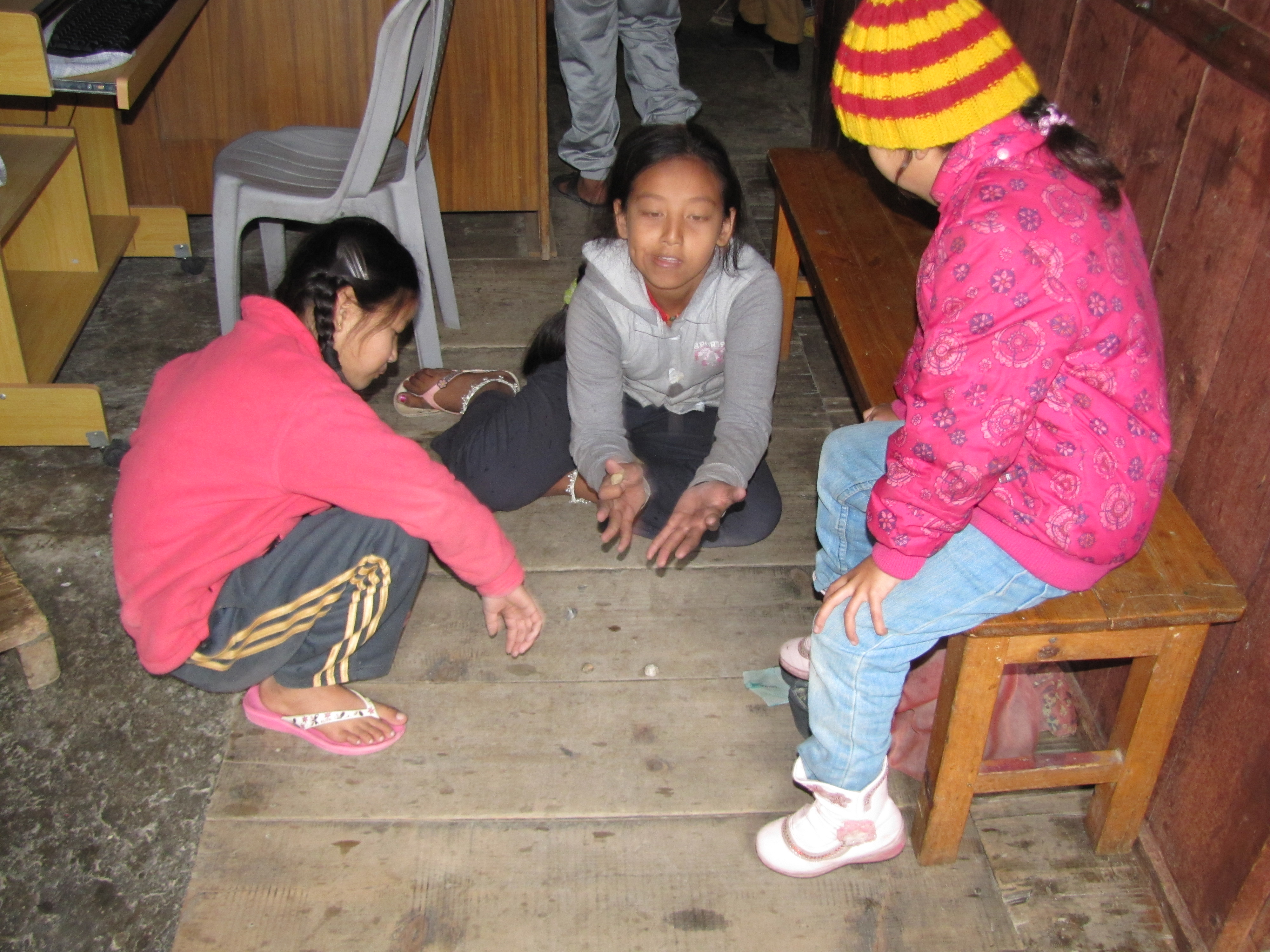 Children in Marpha, Nepal, playing Five-stone